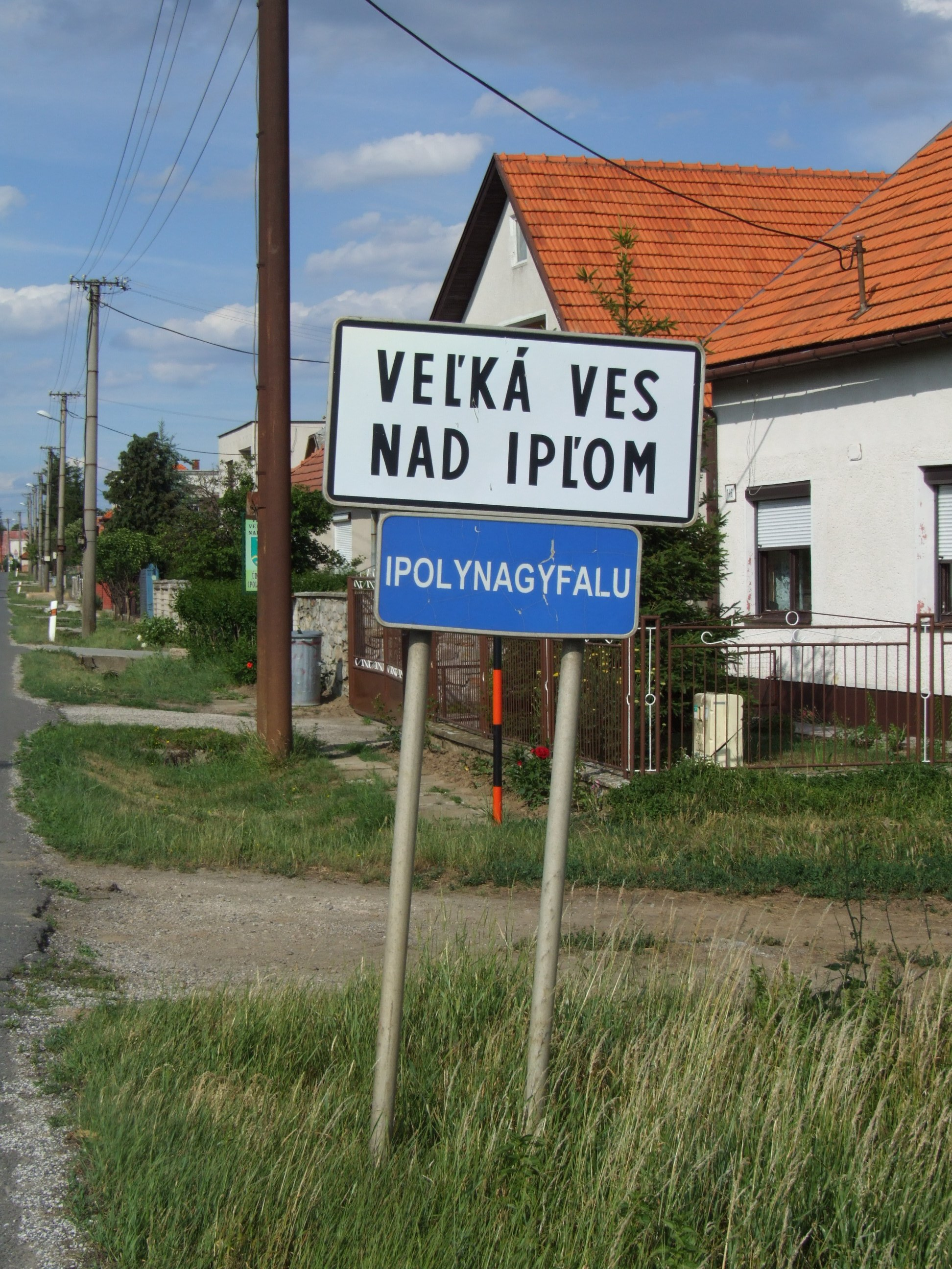 Veľká Ves nad Ipľom/Ipolynagyfalu - city limit sign